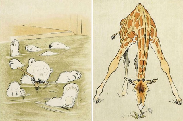 Illustrations from "Zoo Babies" book